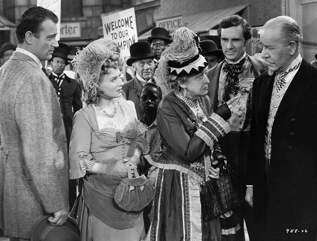 L. to R. : John Wayne, Ona Munson, Helen Westley, Ray Middleton & Henry Stephenson in Lady from Louisiana - publicity still